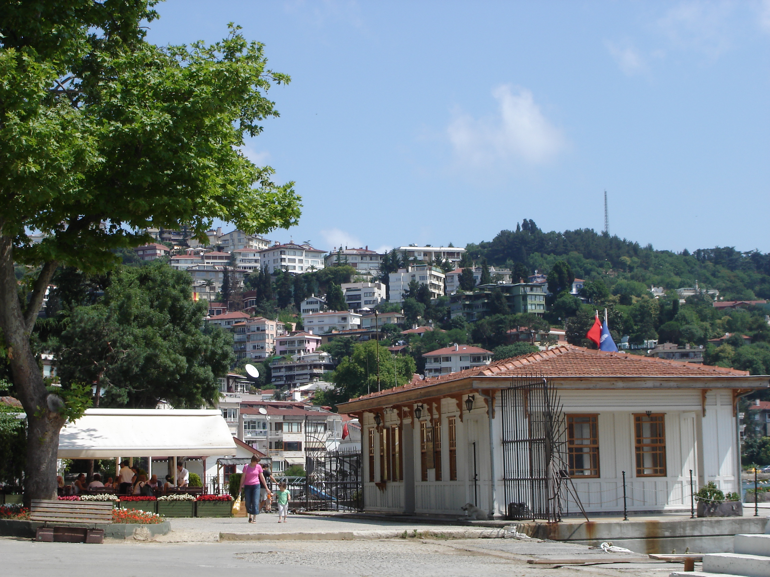 Bebek, view of park, small boat terminal and café